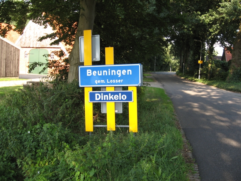 City limit sign of Beuningen, municipality of Losser